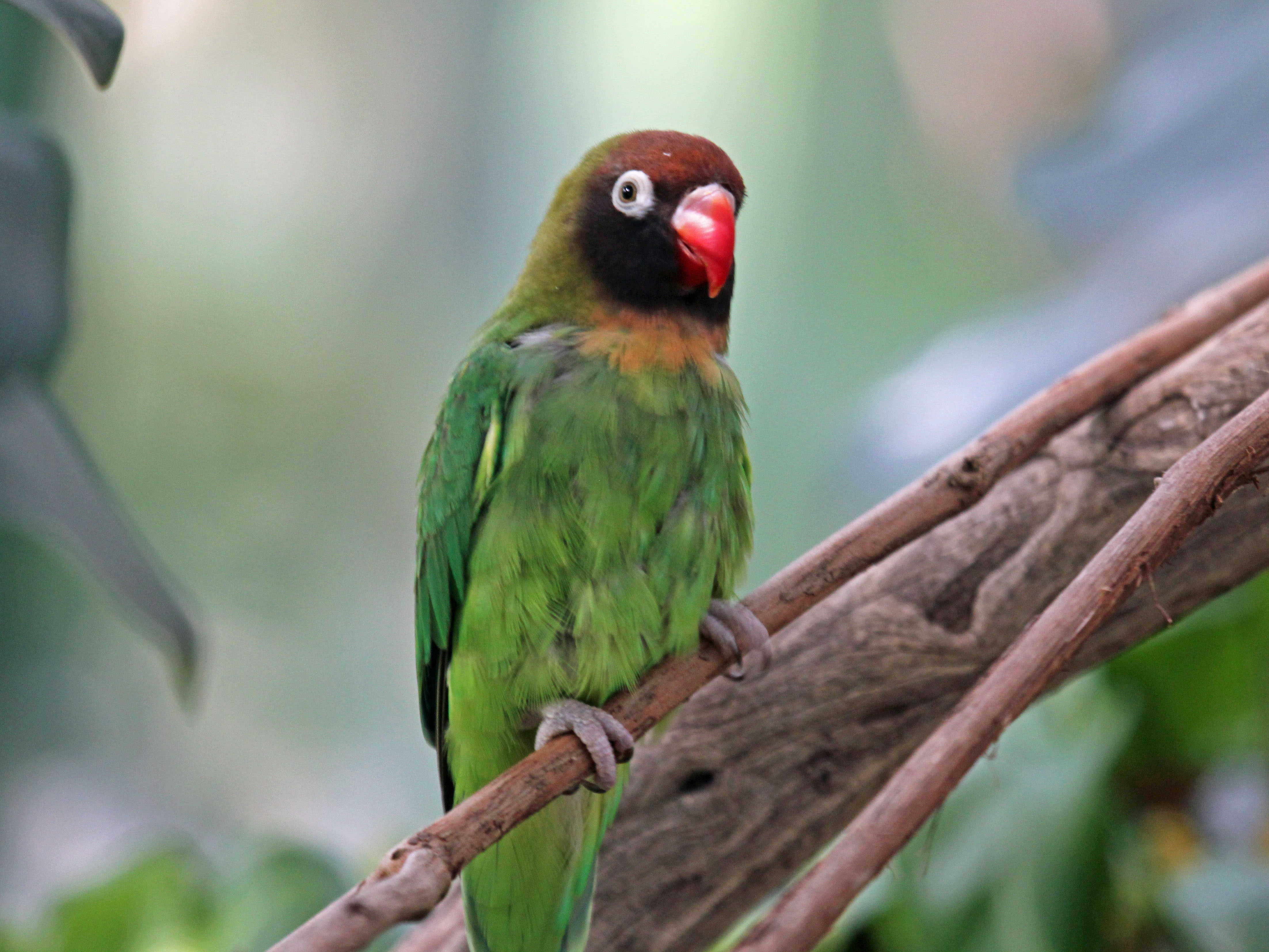 Black-cheeked Lovebird (Agapornis nigrigenis) - San Diego Zoo